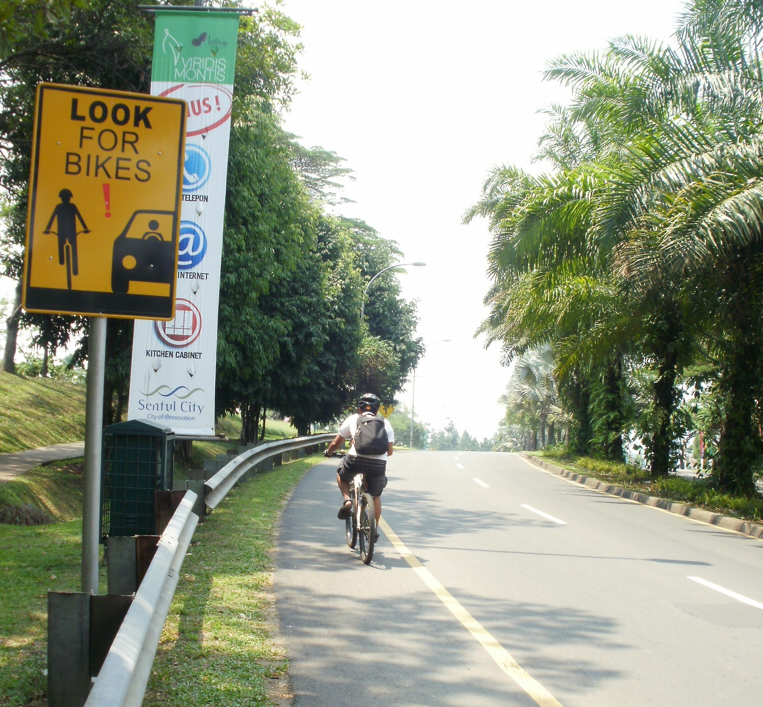 Bike lanes, Sentul City Indonesia